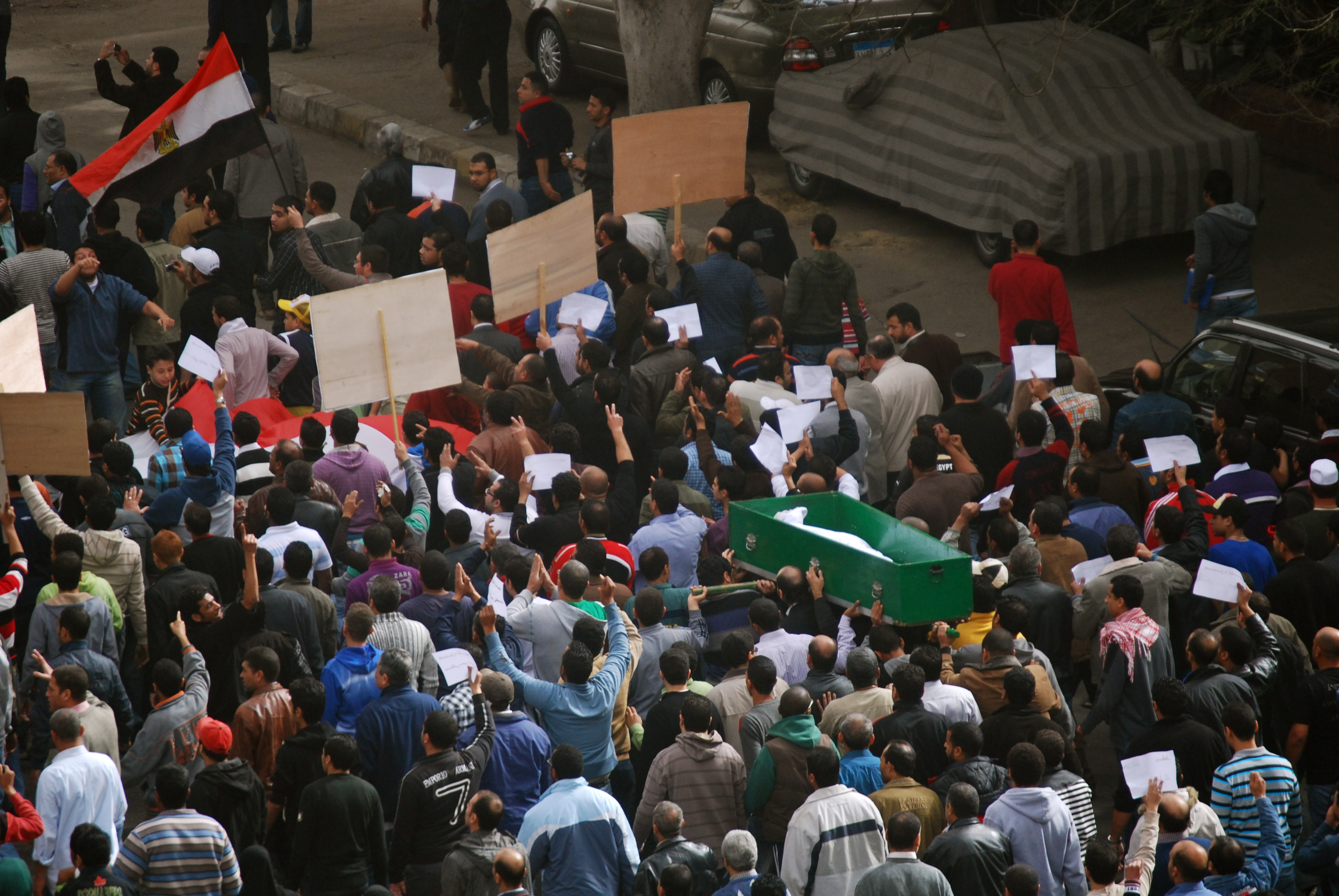 29th of January - The title says it all.